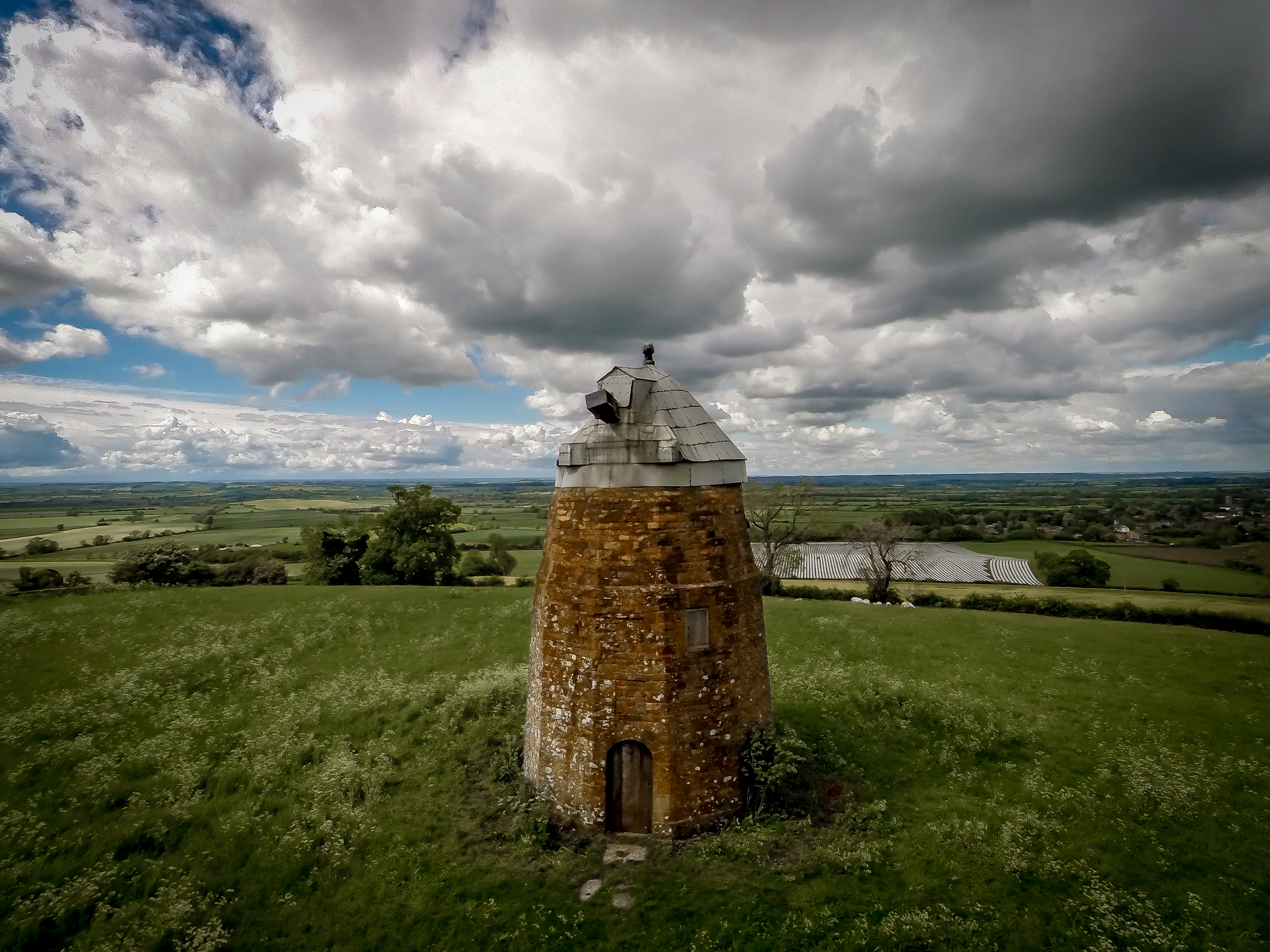 Windmill Hill Windmill, Tysoe, Warwickshire, seen from the south, with Upper Tysoe in the background